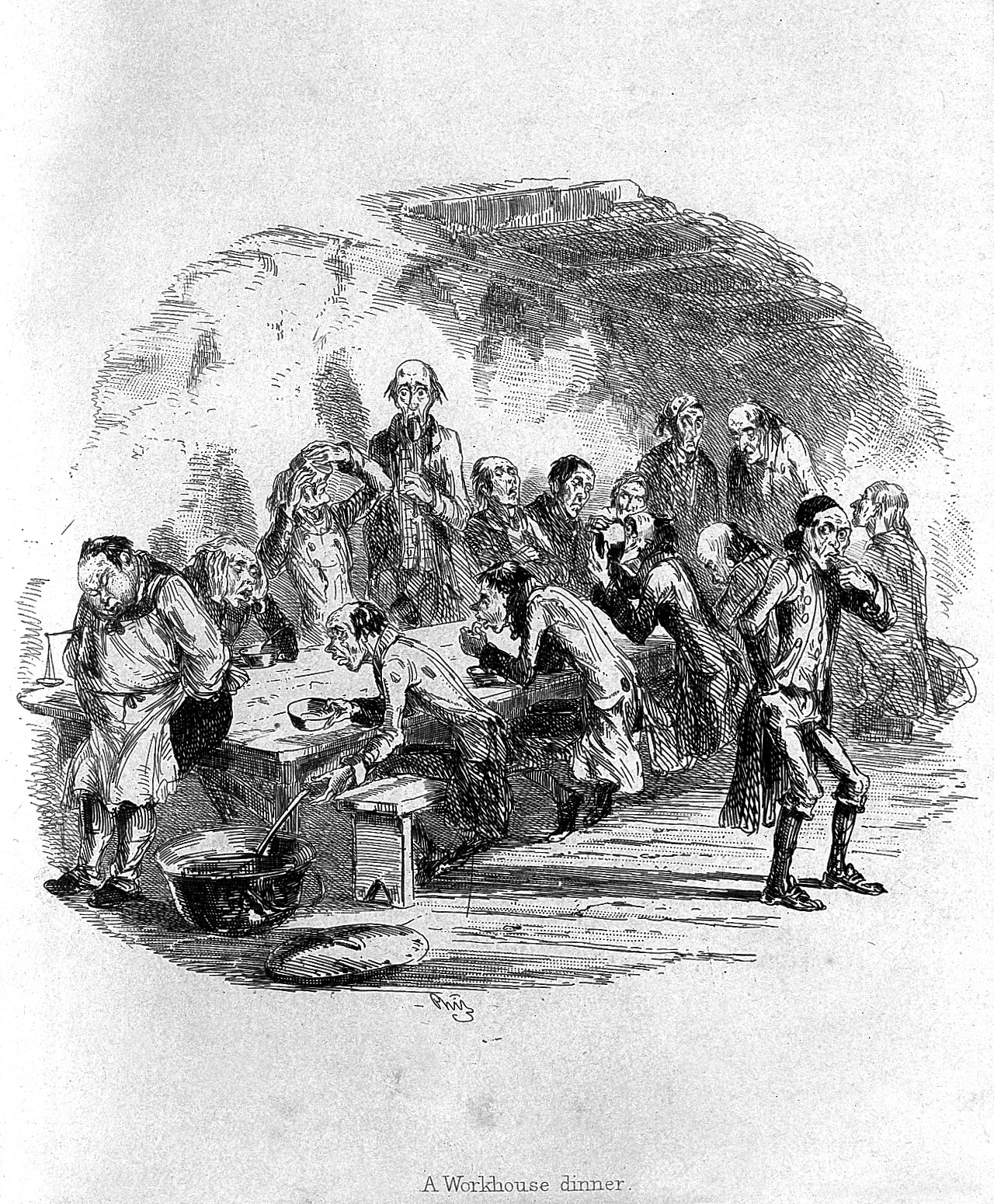 Caricature of poor people at a workhouse having dinner; by Phiz (?), Rare Books Keywords: Workhouses